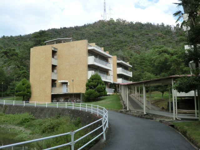 Boys domitory of Kawasaki medical high school.